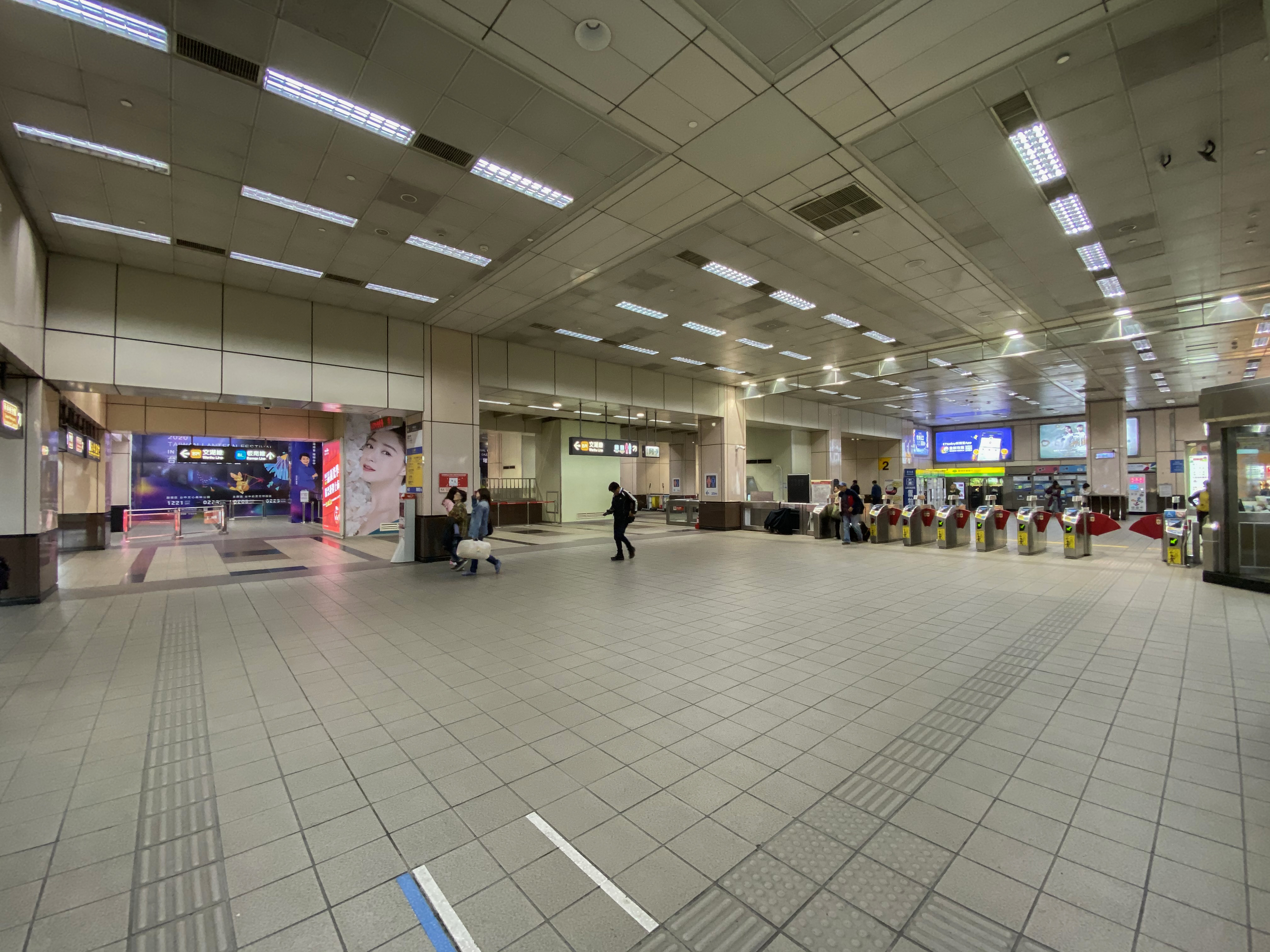 Zhongxiao Fuxing Station Level 3 Concourse